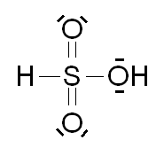 Structure and chemical formula of the sulfonic acid. Selfmade by utilisateur:David Berardan